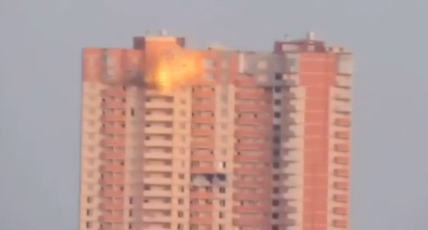 Shells hit residential building in Lugansk, Donbass, August 7, 2014.